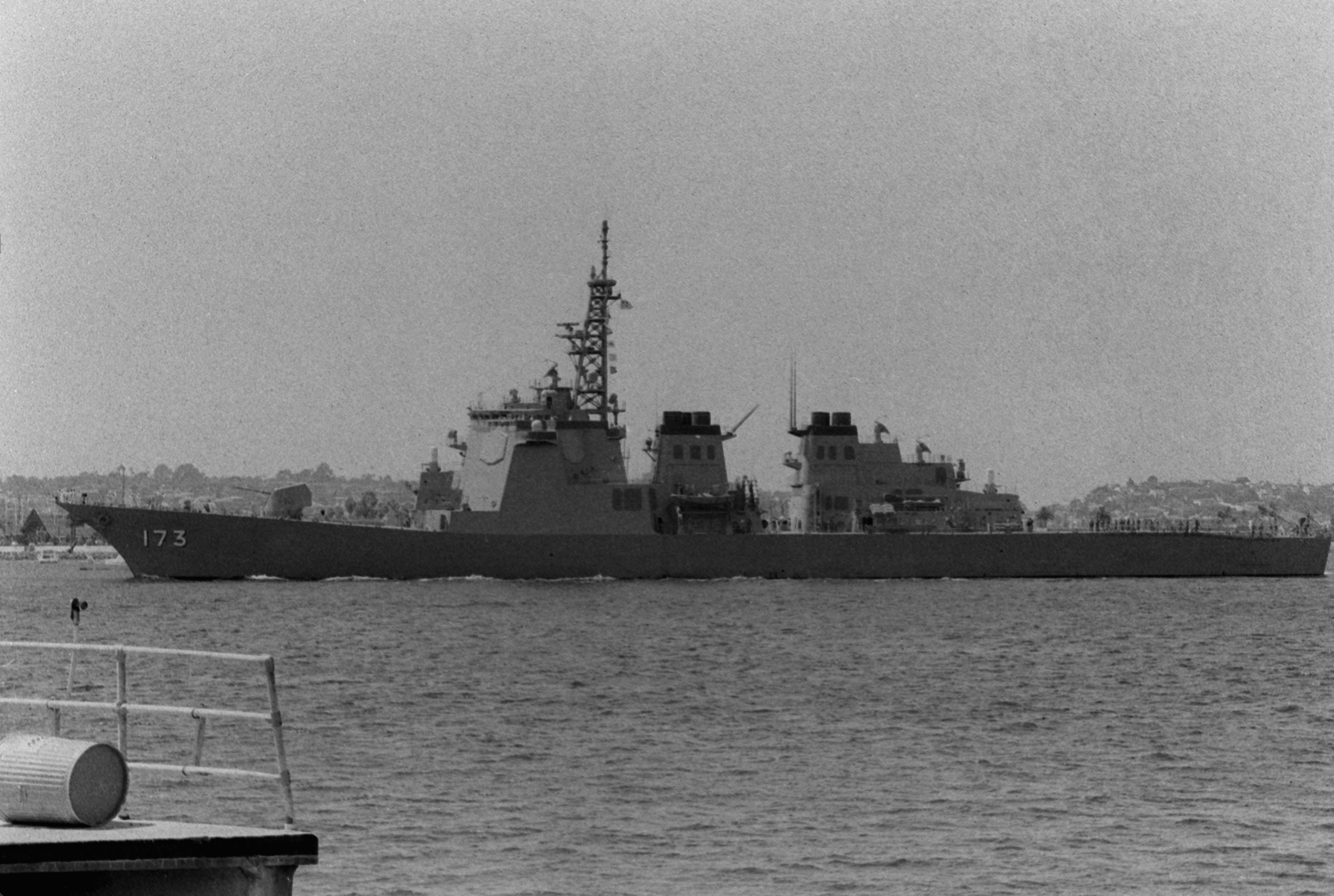 A port side view of the Japanese Maritime Self Defense Force (JMSDF) guided missile destroyer Kongo (DDG-173) entering the harbor. The Kongo is flagship for a force of warships that includes the destroyers Kurama (DDH-144), Amagiri (DD-154), Hamagiri (DD-155), Hatakaze (DD-171) and the replenishment ship Tokiwa (AOE-423). Location: SAN DIEGO HARBOR, CALIFORNIA (CA) UNITED STATES OF AMERICA (USA)